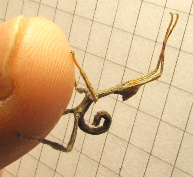 Several days old Extatosoma tiaratum in fright pose on a male middle finger tip.